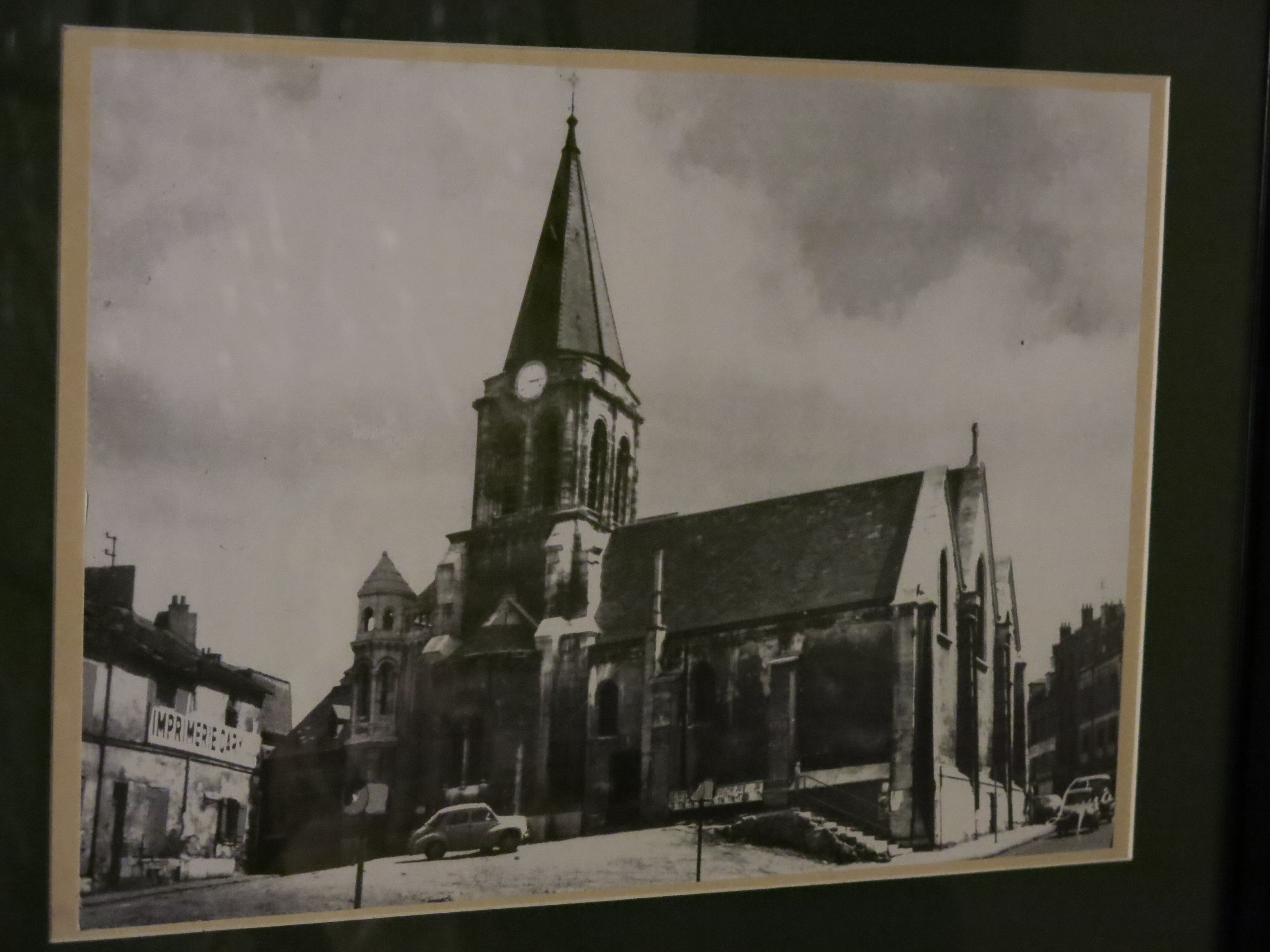 The former church Saint-Pierre-Saint-Paul in Colombes (Hauts-de-Seine, France) circa 1950. Before its destruction and rebuilding in the surroundings. Musée départemental d'Art et d'Histoire de Colombes.